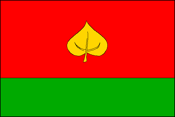 Municipal flag of Lysovice village, Vyškov District, Czech Republic.